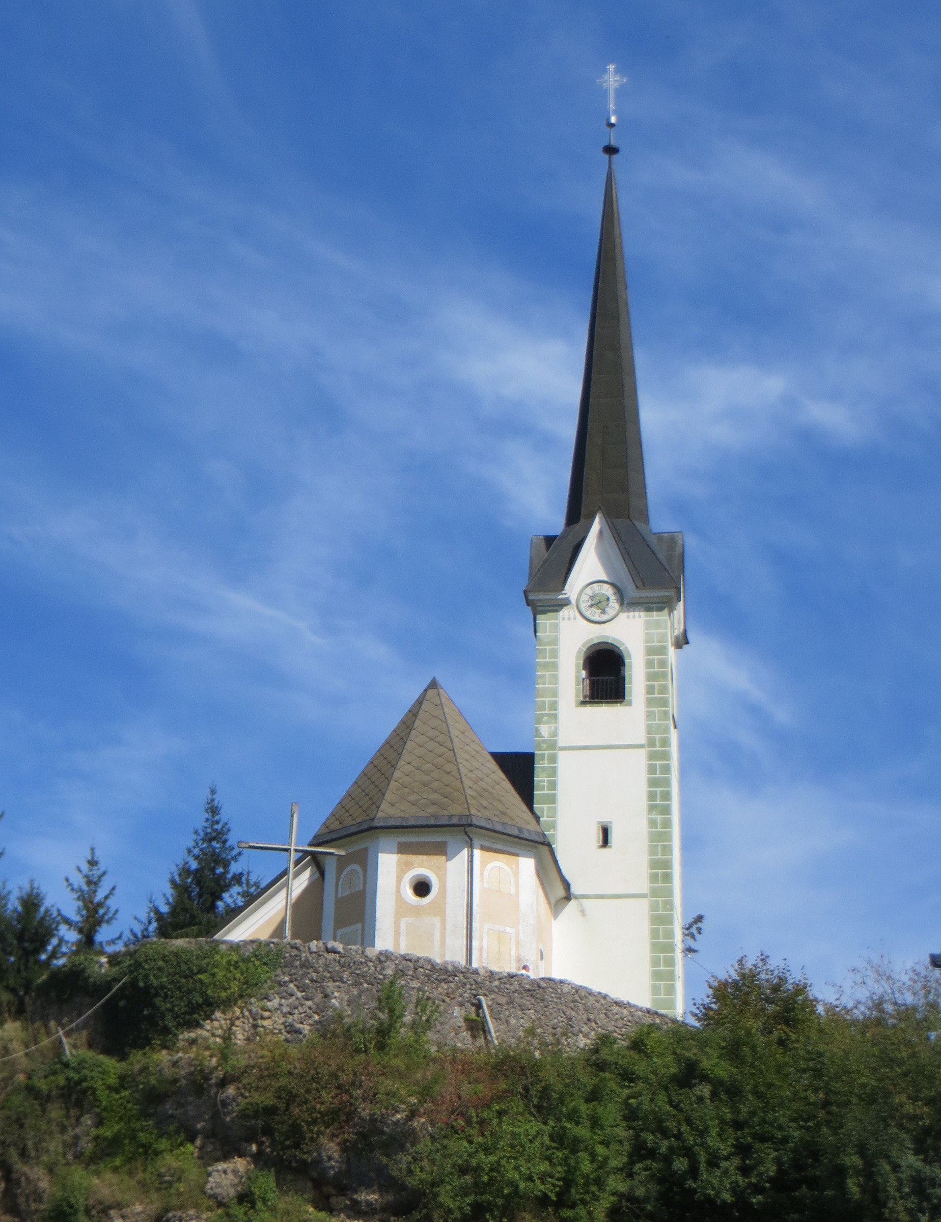 Saint Benedict and Our Lady of Sorrows Church in Podbrezje, Municipality of Naklo, Slovenia